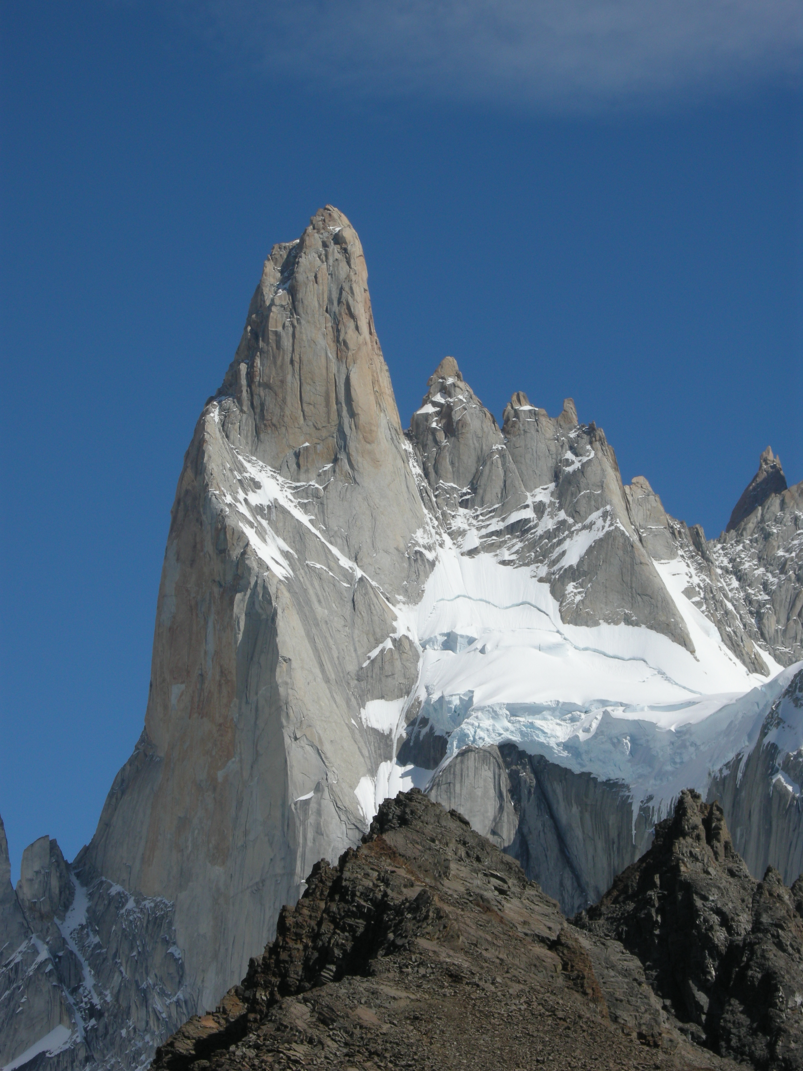 East face of Aguja Poincenot, in the Fitz Roy massif. Los Glaciares National Park, Santa Cruz Province, Argentina.